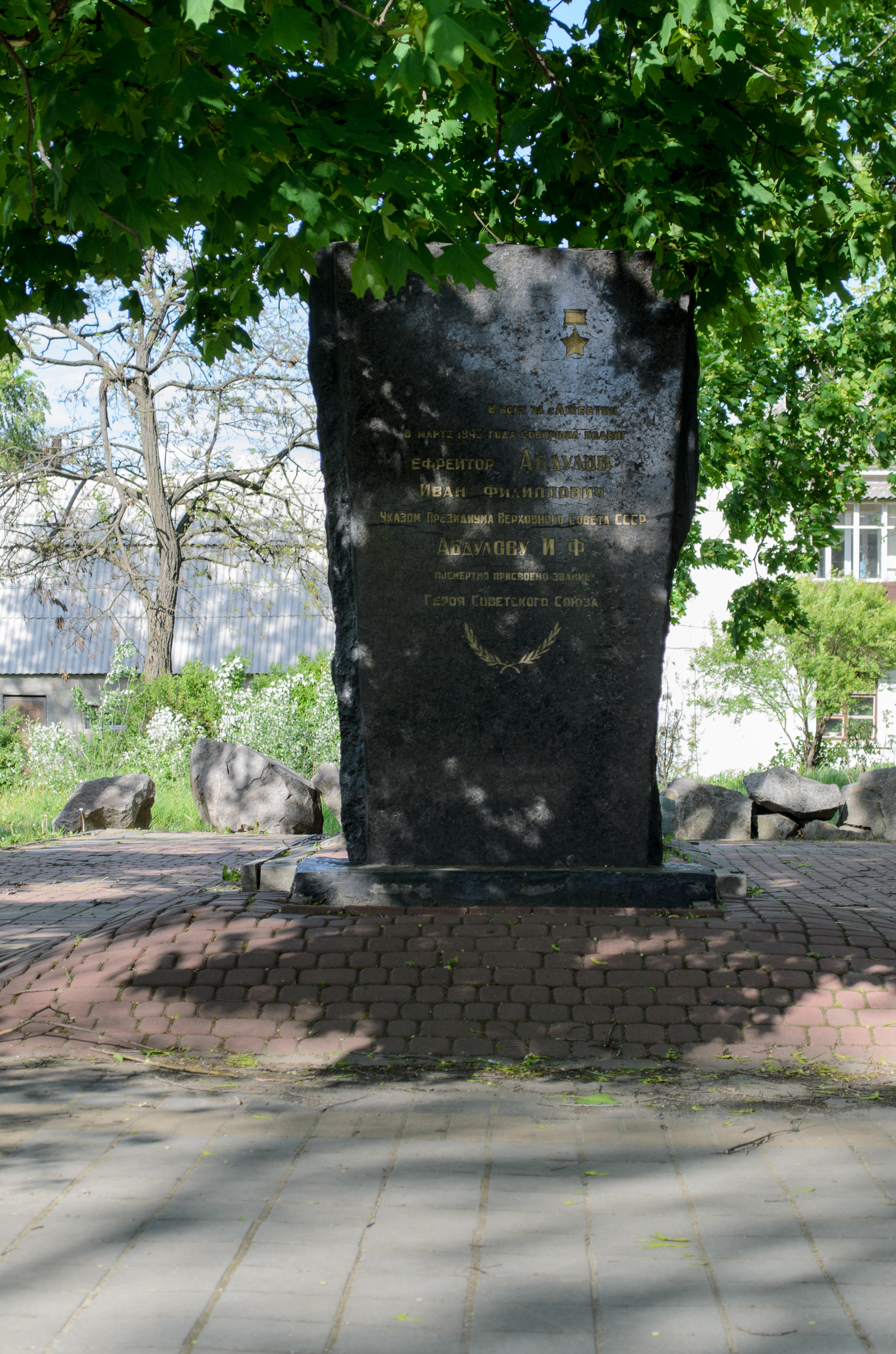 Monument to I.P. Abdulov, Lyubotyn